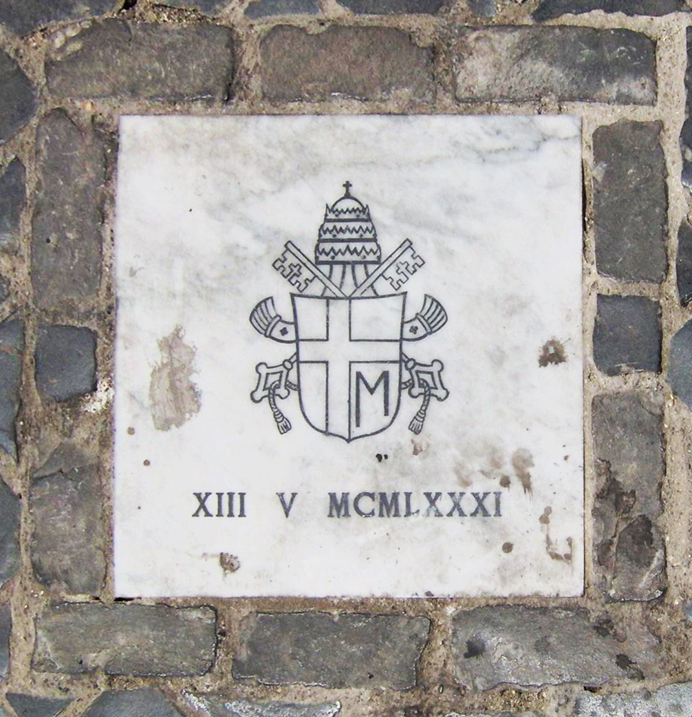 Stone marking the site of the en:1981 Pope John Paul II assassination attempt. Self taken, 2006.